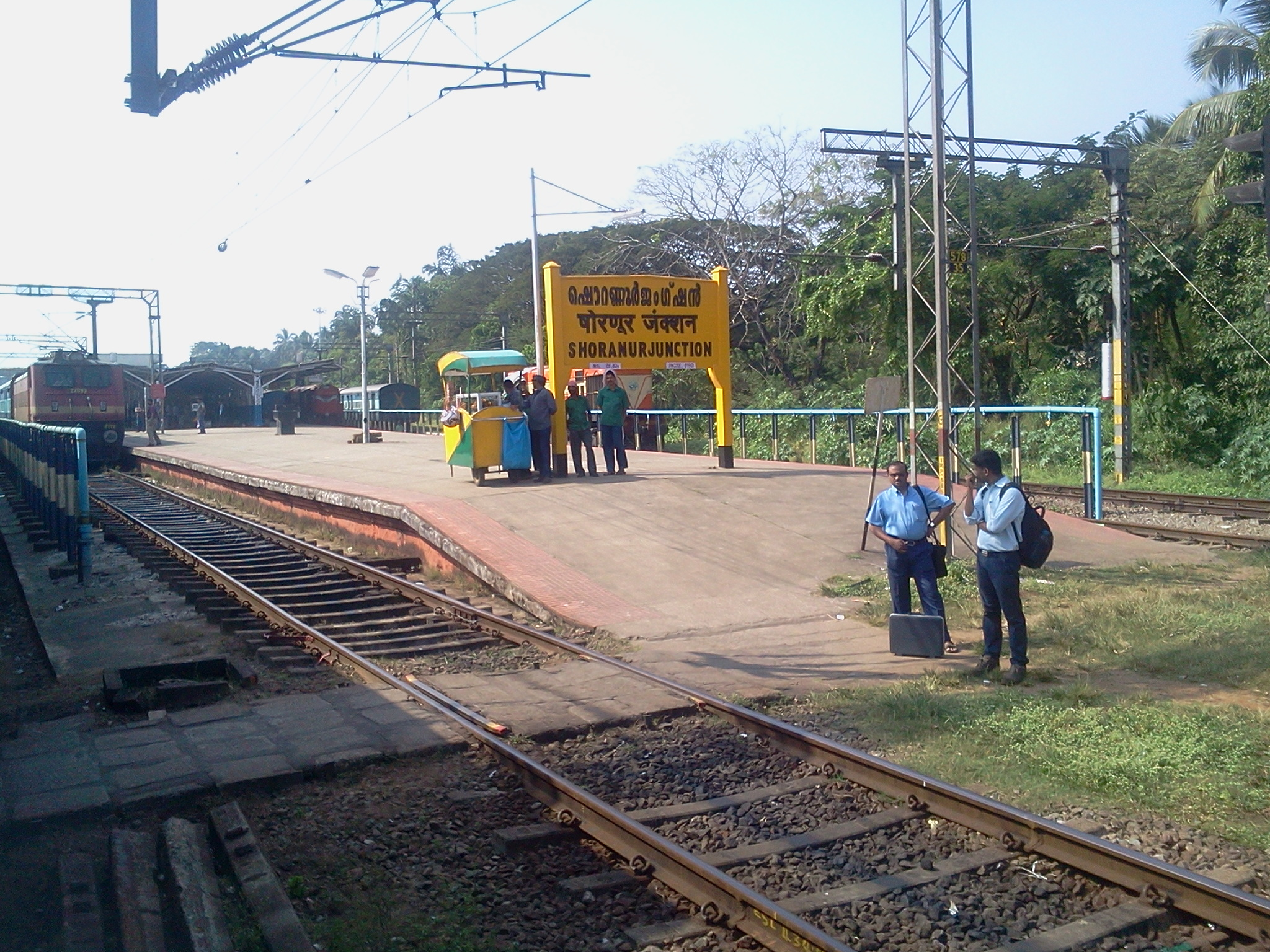 Shornur Railway Station